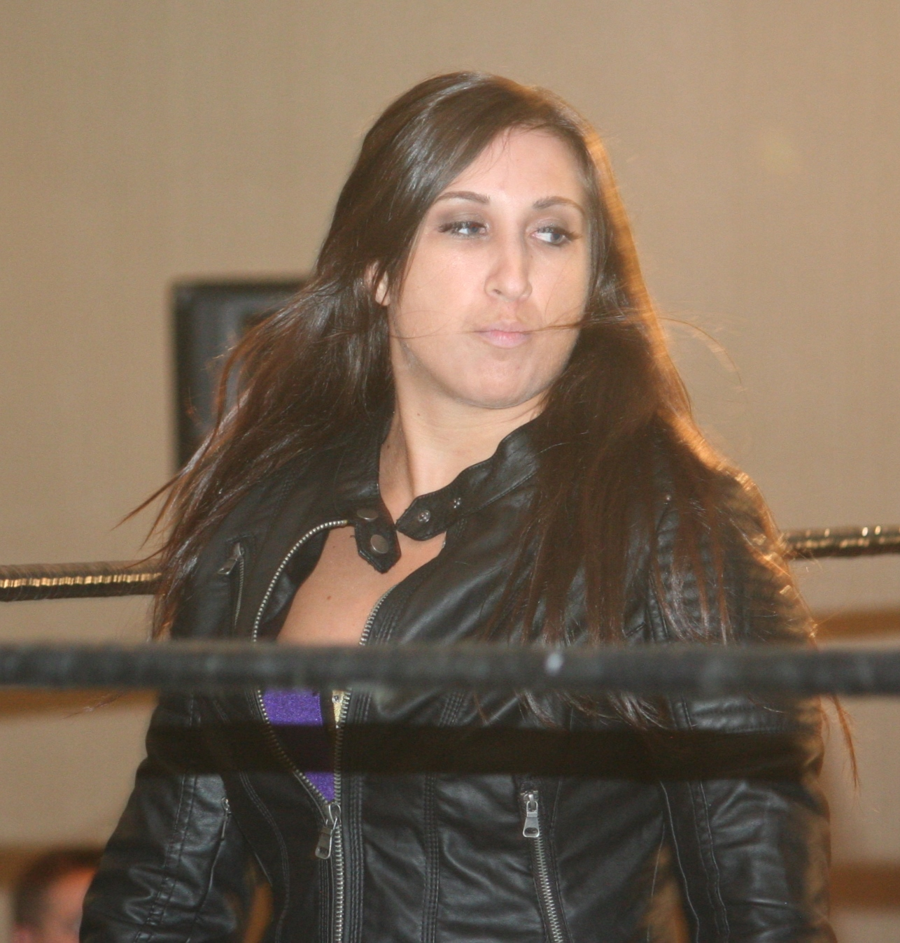 Rachael Ellering at the Queens of Combat show in Charlotte, NC 8-6-16